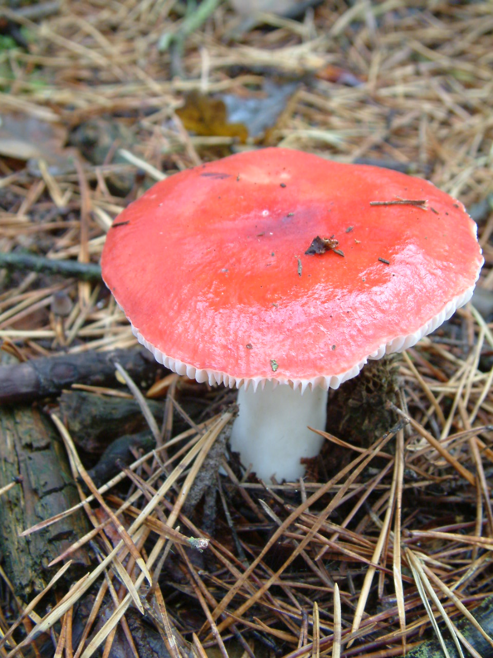 Russula paludosa. Photographed by Dave Parkes in pine woodland at Fleet Pond, Hampshire, UK.